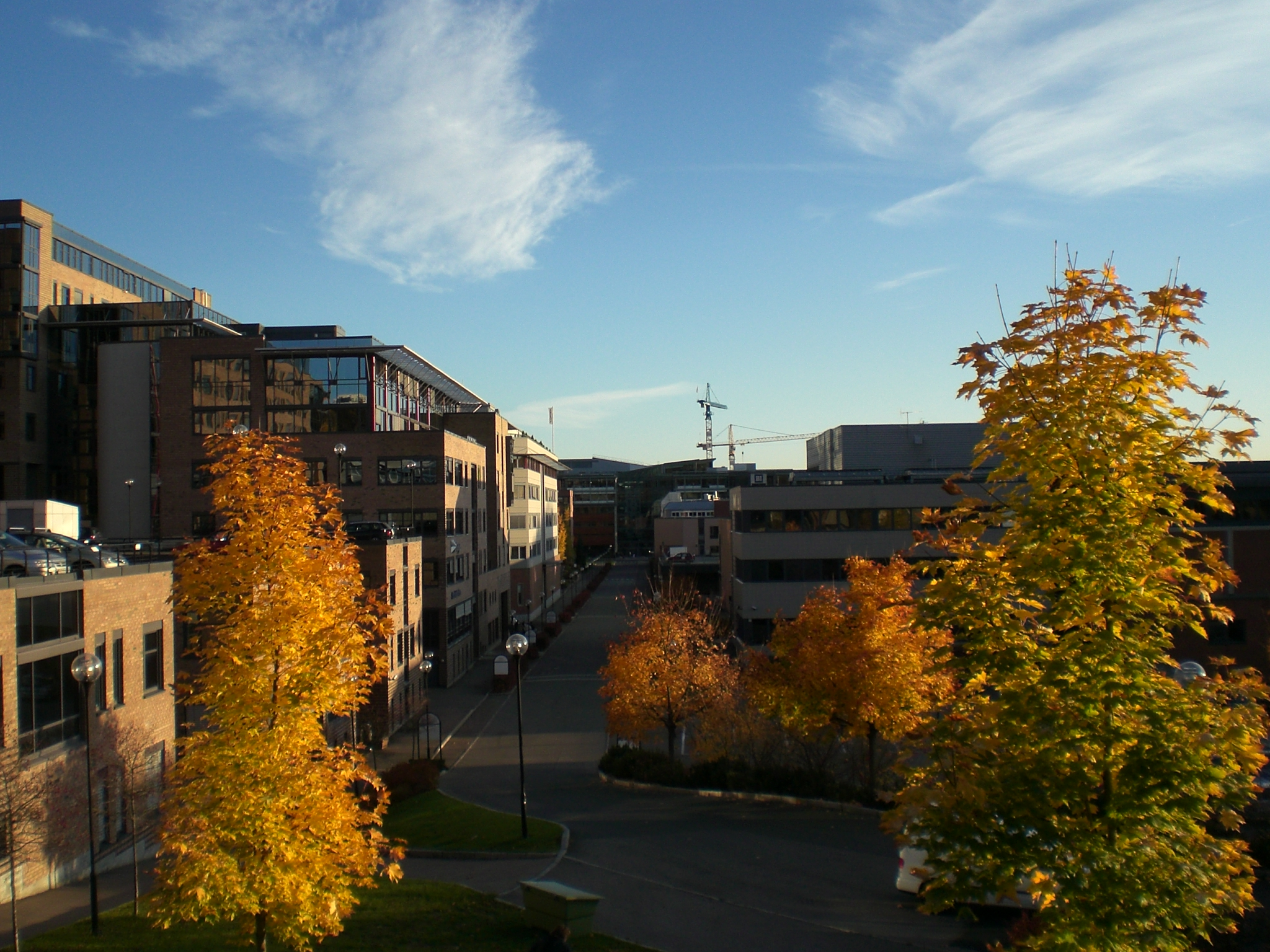 Gullhaugveien in Nydalen, Oslo, Norway